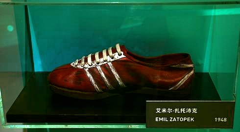 Emil Zatopek running shoes by Adidas. 1948.